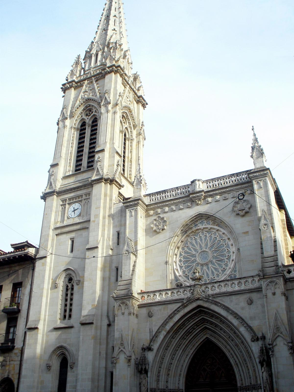 Catedral de Santiago de Bilbao (País Vasco, España)